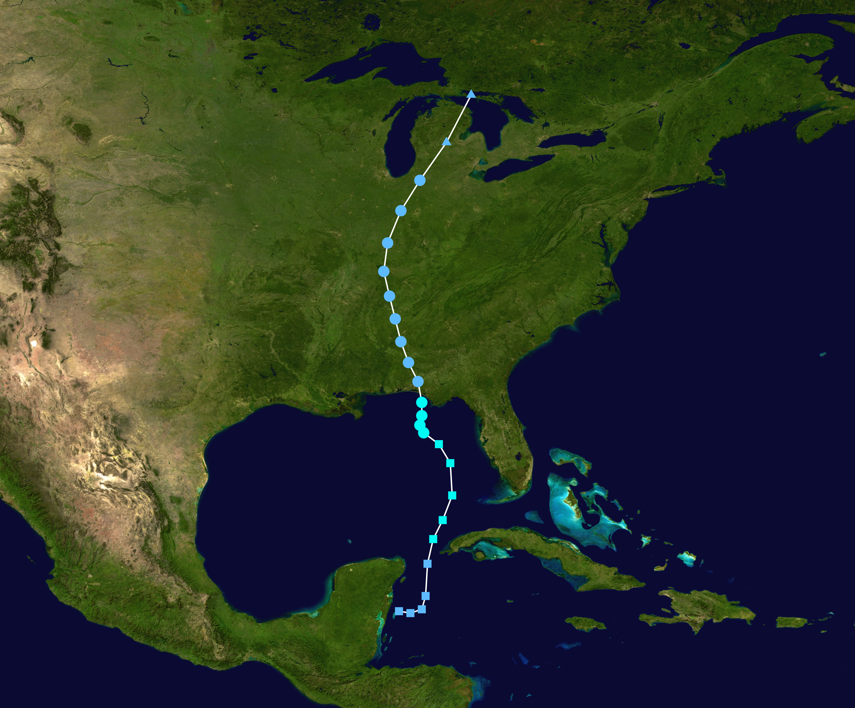 Track map of Tropical Storm Alberto (2018) of the 2018 Atlantic hurricane season. The points show the location of the storm at 6-hour intervals. The colour represents the storm's maximum sustained wind speeds as classified in the Saffir–Simpson scale (see below), and the shape of the data points represent the nature of the storm, according to the legend below. Saffir–Simpson scale Tropical depression≤38 mph≤62 km/h Category 3111–129 mph178–208 km/h Tropical storm39–73 mph63–118 km/h Category 4130–156 mph209–251 km/h Category 174–95 mph119–153 km/h Category 5≥157 mph≥252 km/h Category 296–110 mph154–177 km/h Unknown Storm type Tropical cyclone Subtropical cyclone Extratropical cyclone / Remnant low / Tropical disturbance / Monsoon depression